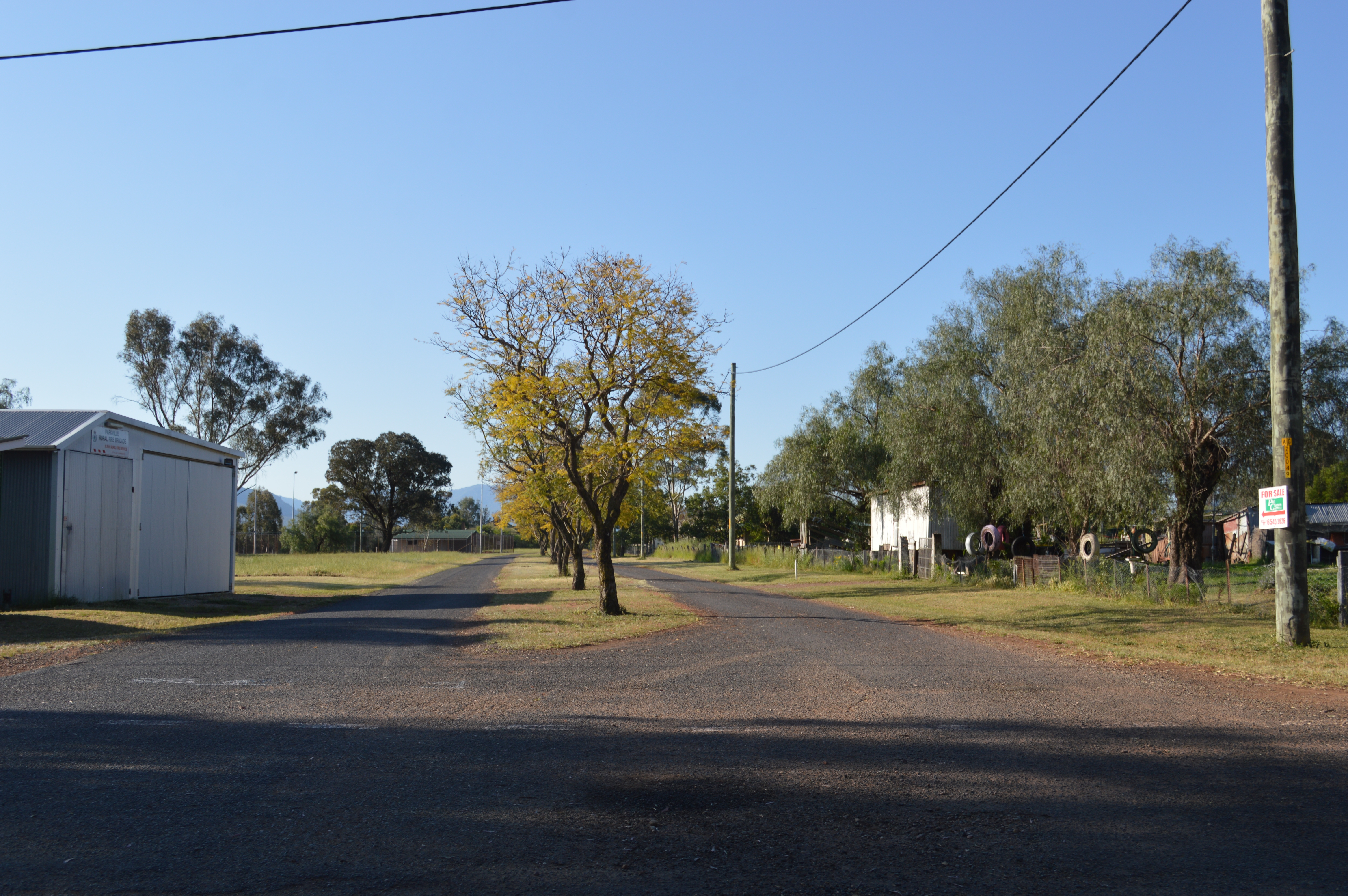 Albert Street in Parkville, New South Wales